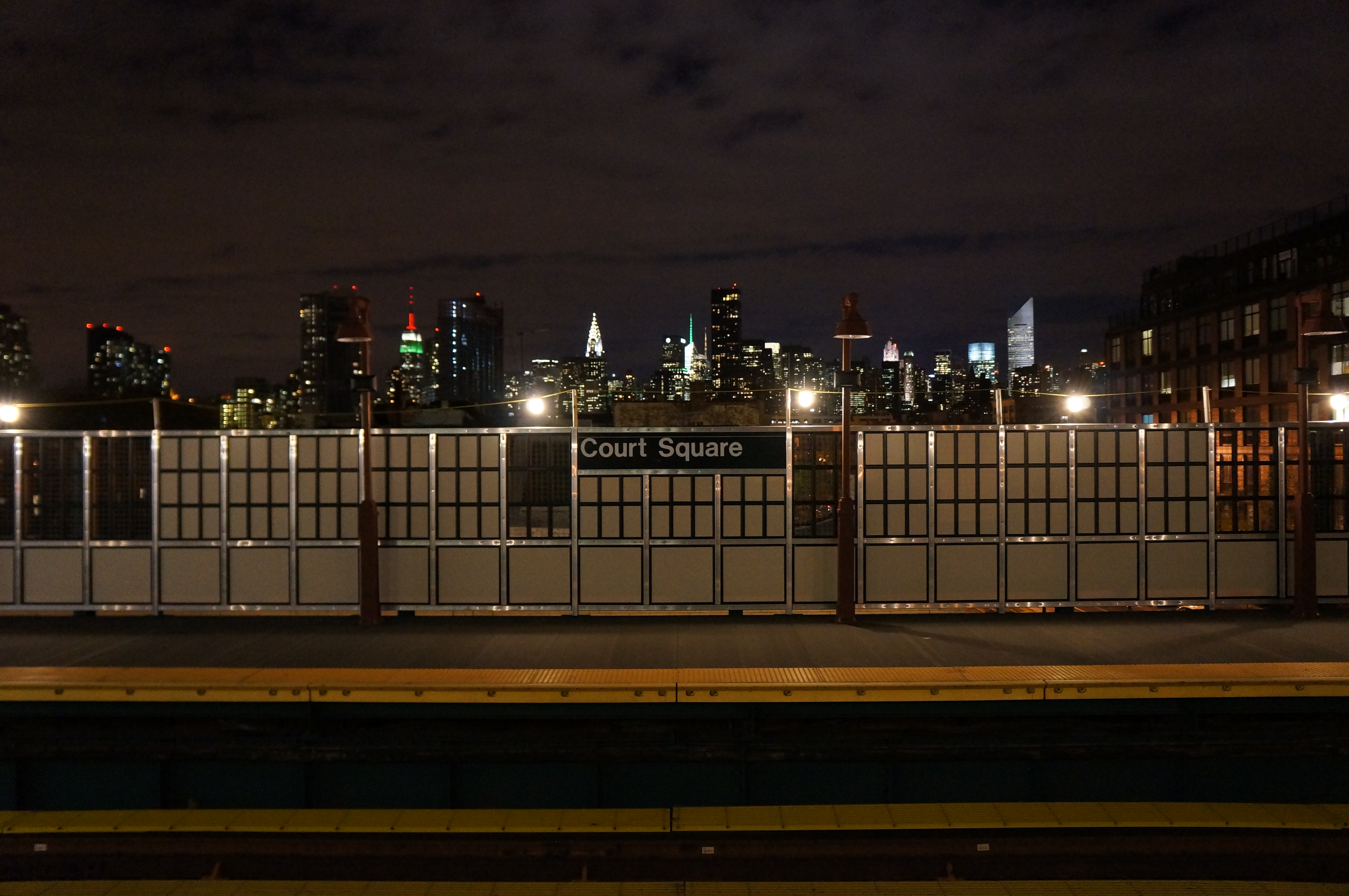 The Flushing Line platform at Court Square.